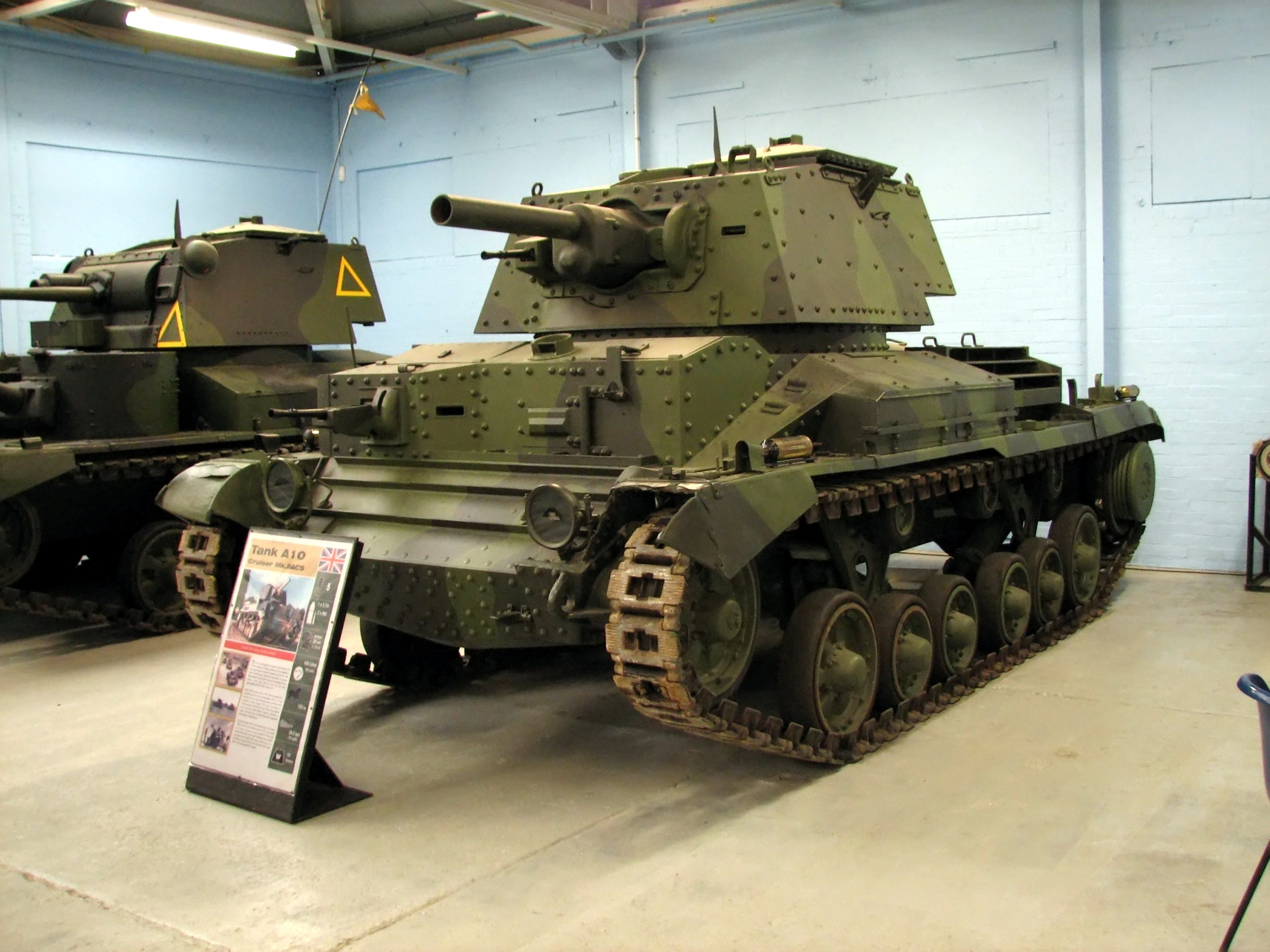 British Cruiser Tank MkIIA CS (close support) / A10 MkIA CS at Bovington Tank Museum